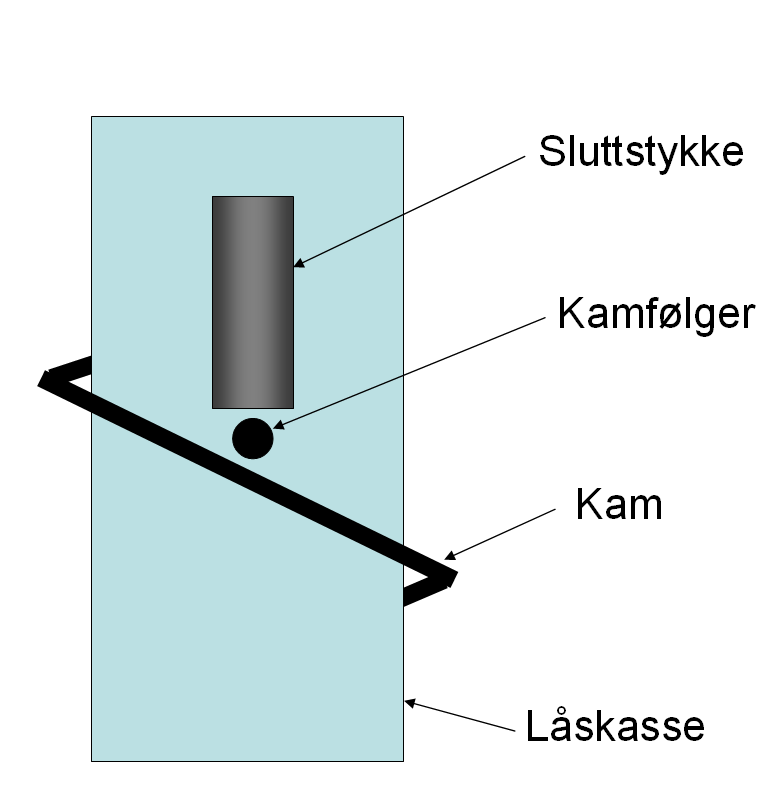 Description Sketch of a Gatling gun mechanism in Norwegian Author Harald Hansen